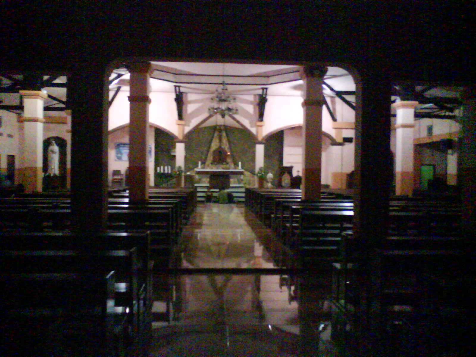 Church